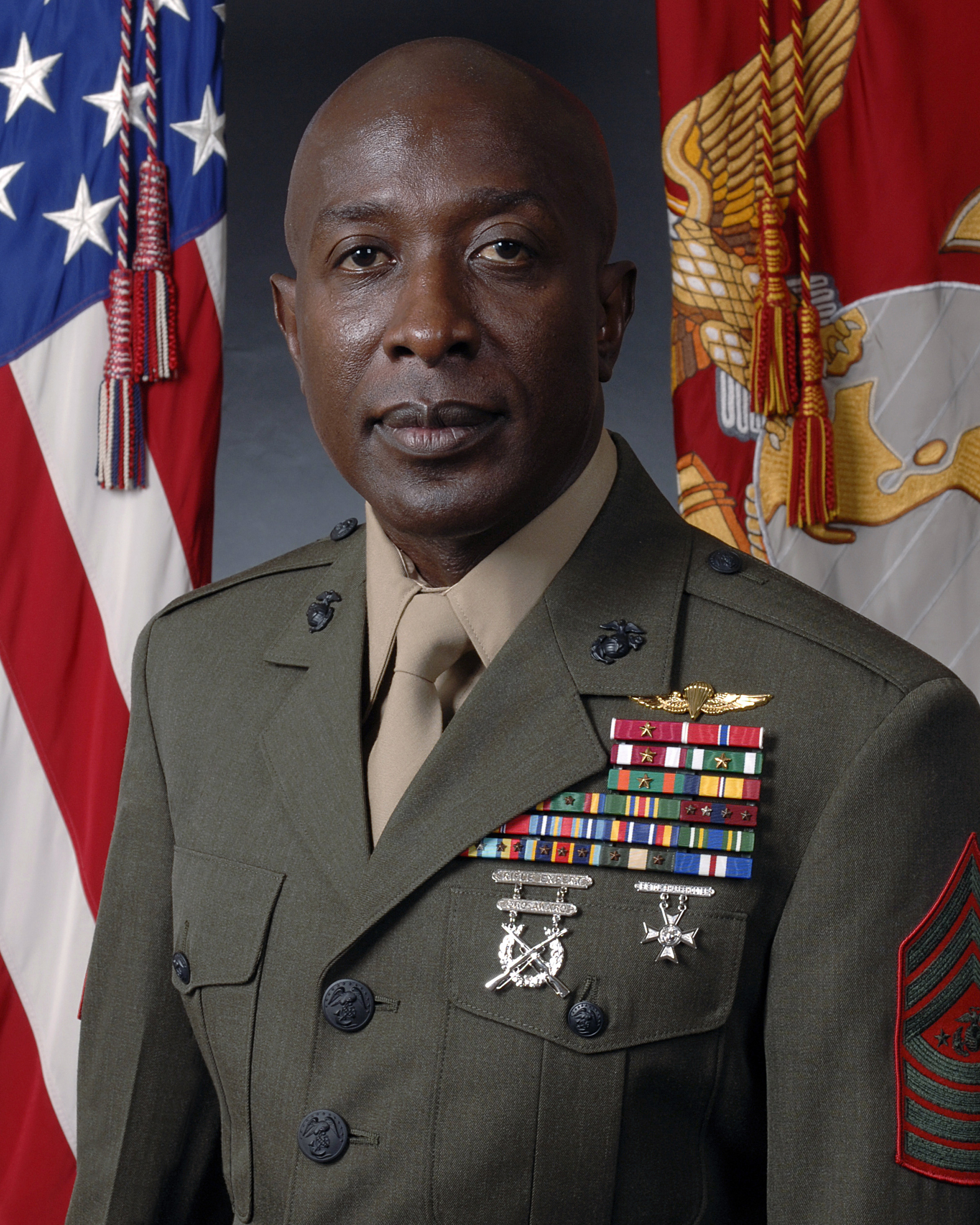 Sergeant Major Carlton Kent, USMC. Former Sergeant Major of the I Marine Expeditionary Force; the 16th Sergeant Major of the Marine Corps as of April 25, 2007. Sources (some may be outdated or for previous versions): Accessed on 2007-01-20. Accessed on 2009-05-13 Accessed on 2009-05-13